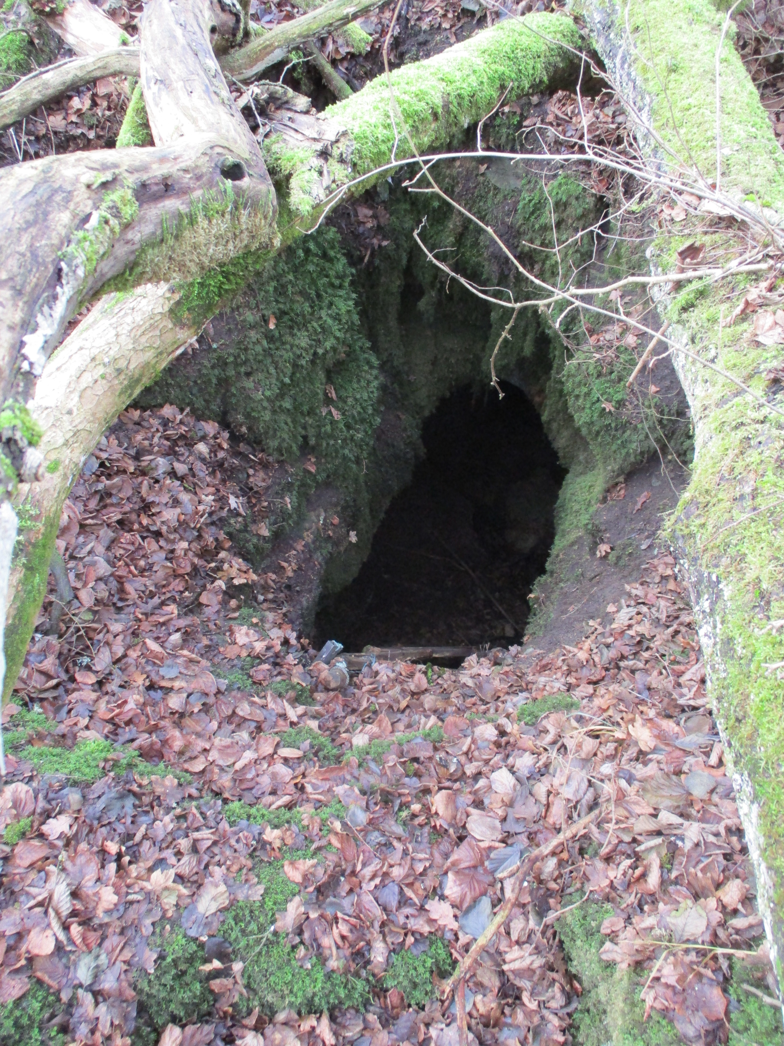 The Pumperhöhle, in the Forrest between Rothenberg and Otting, Bavaria, Germany. The entrance to the cave. A damaged old wooden ladder can be seen in the hole.